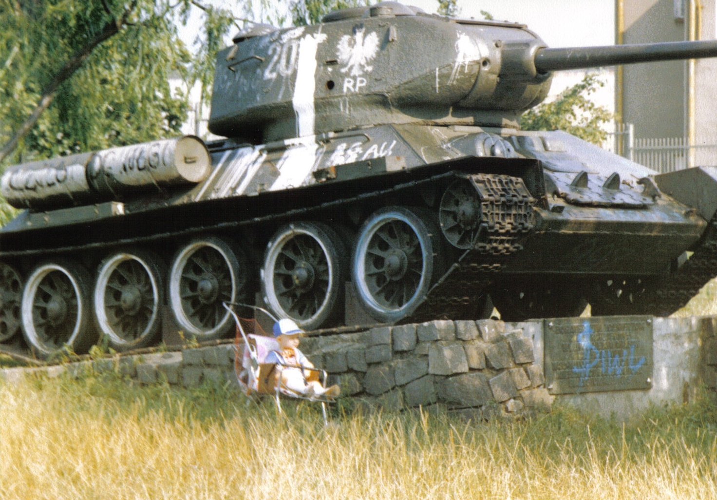 a Soviet tank previously standing on Zankiewicz square in Bialystok; now in a museum